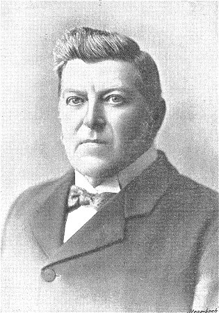 (William) Henry Lloyd (1839-1916) of Hatch Court, Somerset. He was a member of the wealthy Lloyd family of Birmingham, Quakers by religion, long established steel manufacturers and founders of Lloyds Bank. He was the fifth son of Samuel II "Quaker" Lloyd (1795–1862), who established the iron founder "Lloyds Foster & Co." which owned the "Old Park Works" foundry and colliery in Wednesbury.